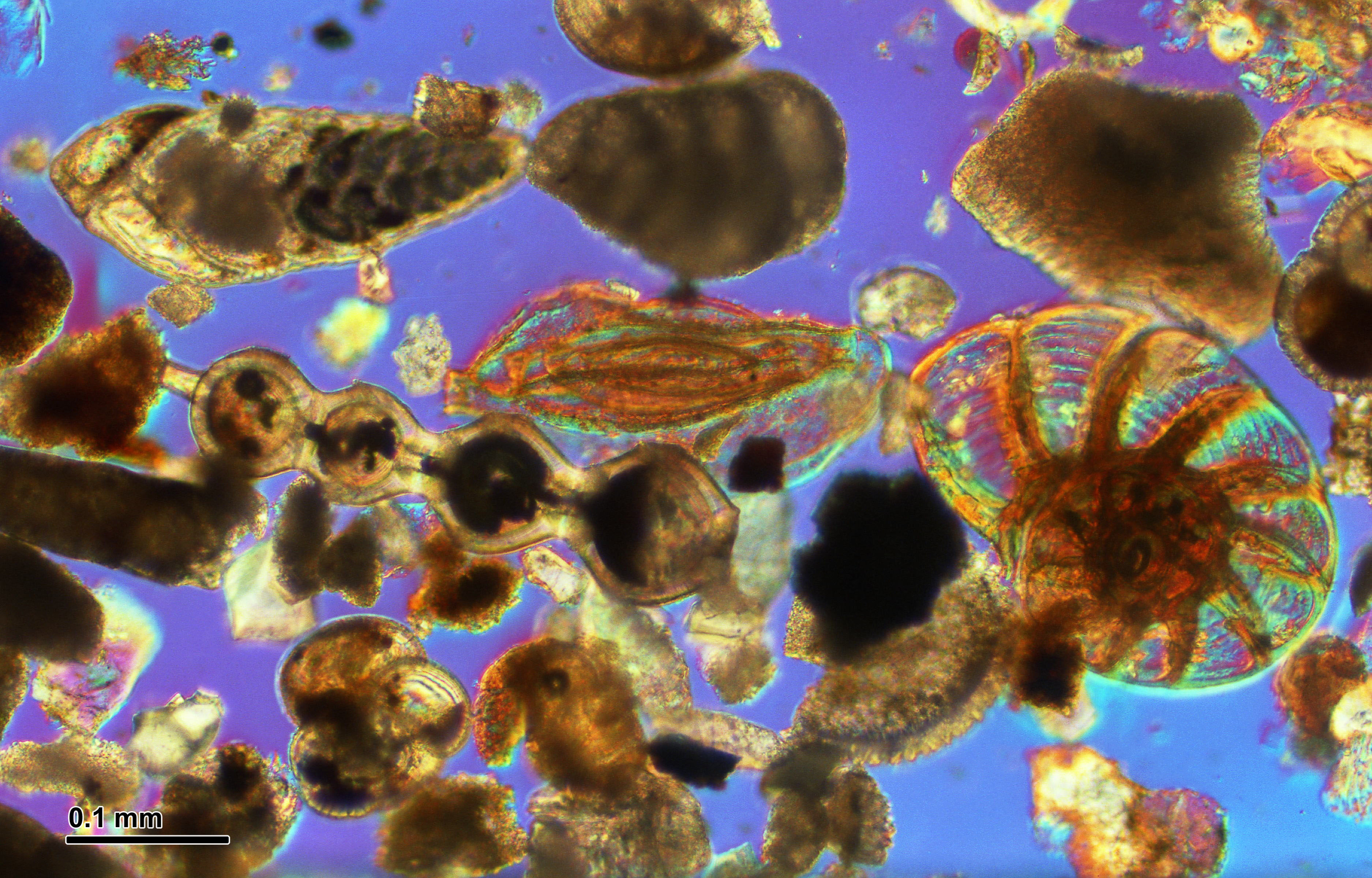 Foraminifera (Foraminifera): Various. Optical microscopy technique: Differential interference contrast (Nomarski). Magnification: 300x (for picture width 26 cm ~ A4 format).